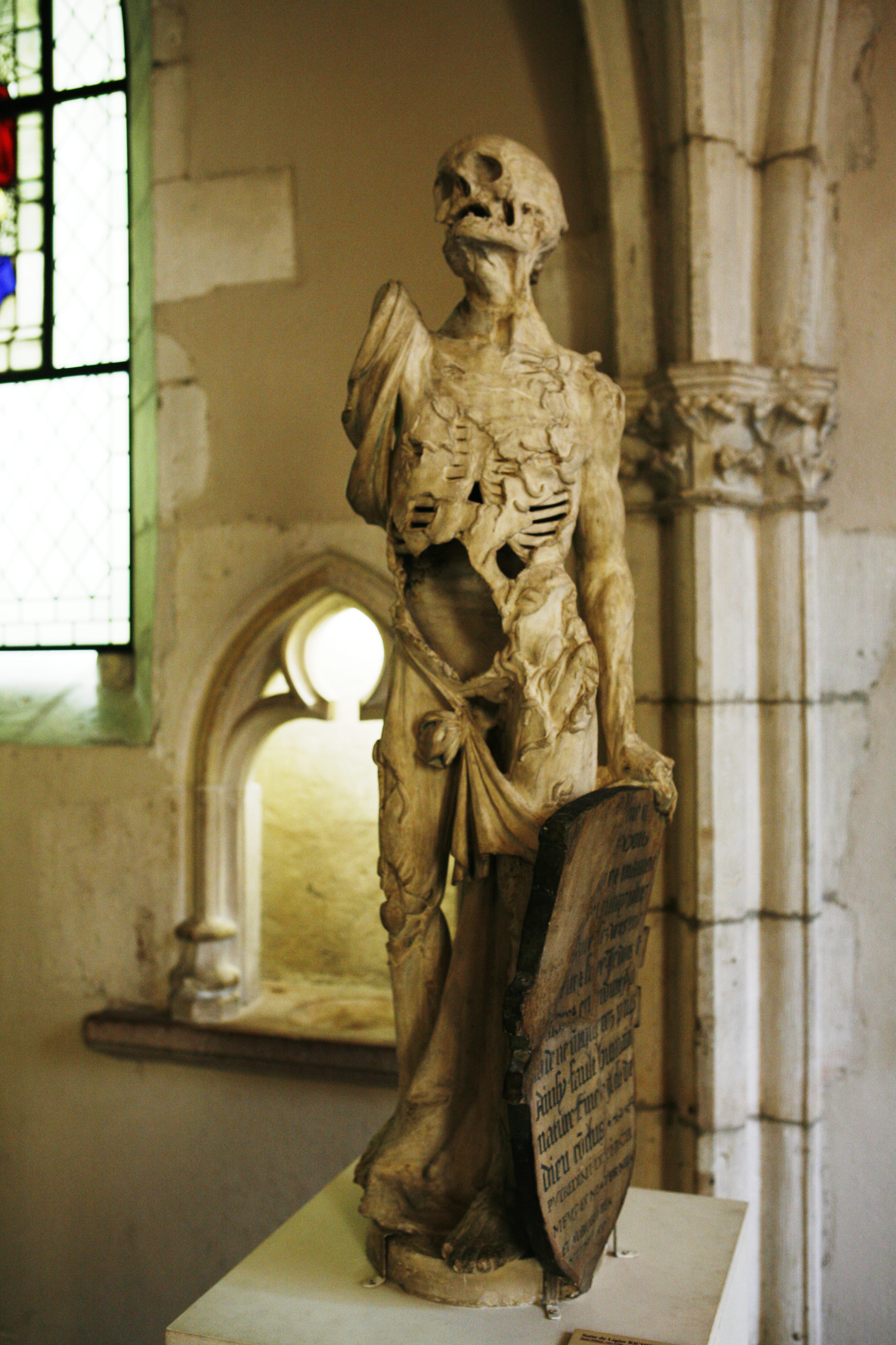 Écorché, by Ligier Richier Stone On display at Dijon fine arts museum. Ref. number 3743